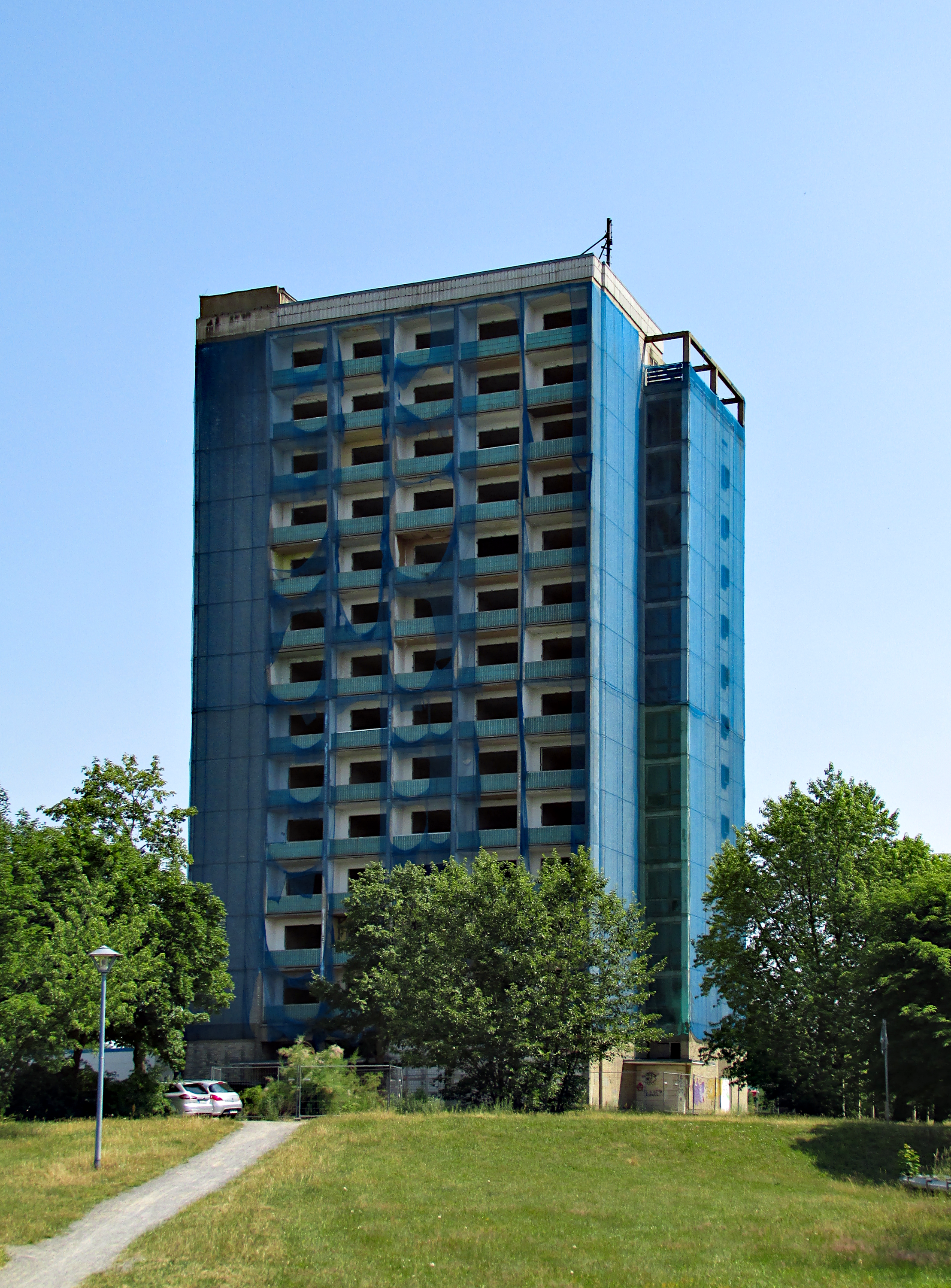 Long-abandoned and gutted Leipziger Straße 12. The Plattenbau was erected in the mid-1960s as a high-rise residential building. This view is from the southwest.